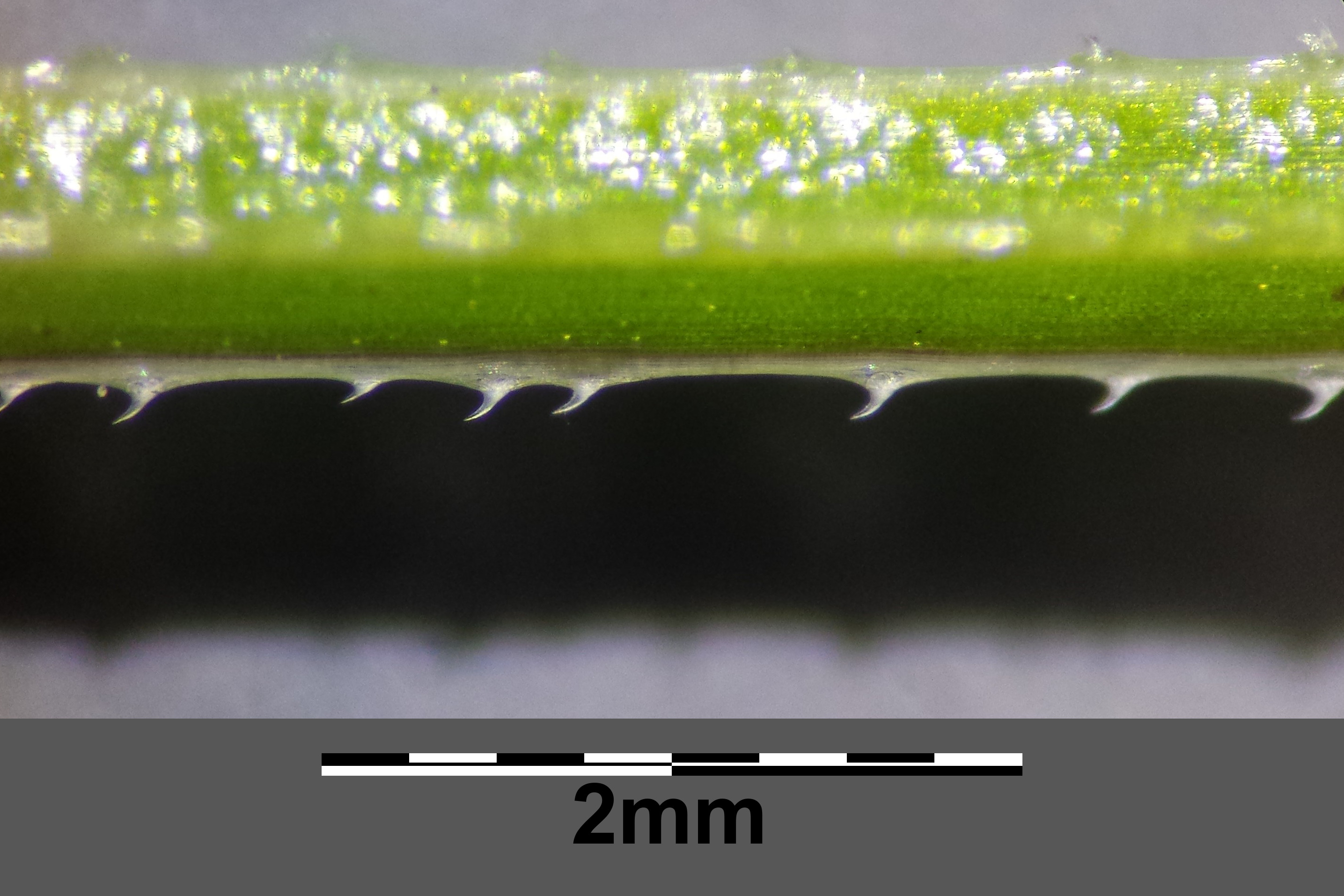 Retrorsely aculeolate stem Taxonym: Galium spurium var. echinospermum ss Fischer et al. EfÖLS 2008 ISBN 978-3-85474-187-9 Location: pond near Michelstetten, district Mistelbach, Lower Austria - ca. 250 m a.s.l. Habitat: shore of a pond